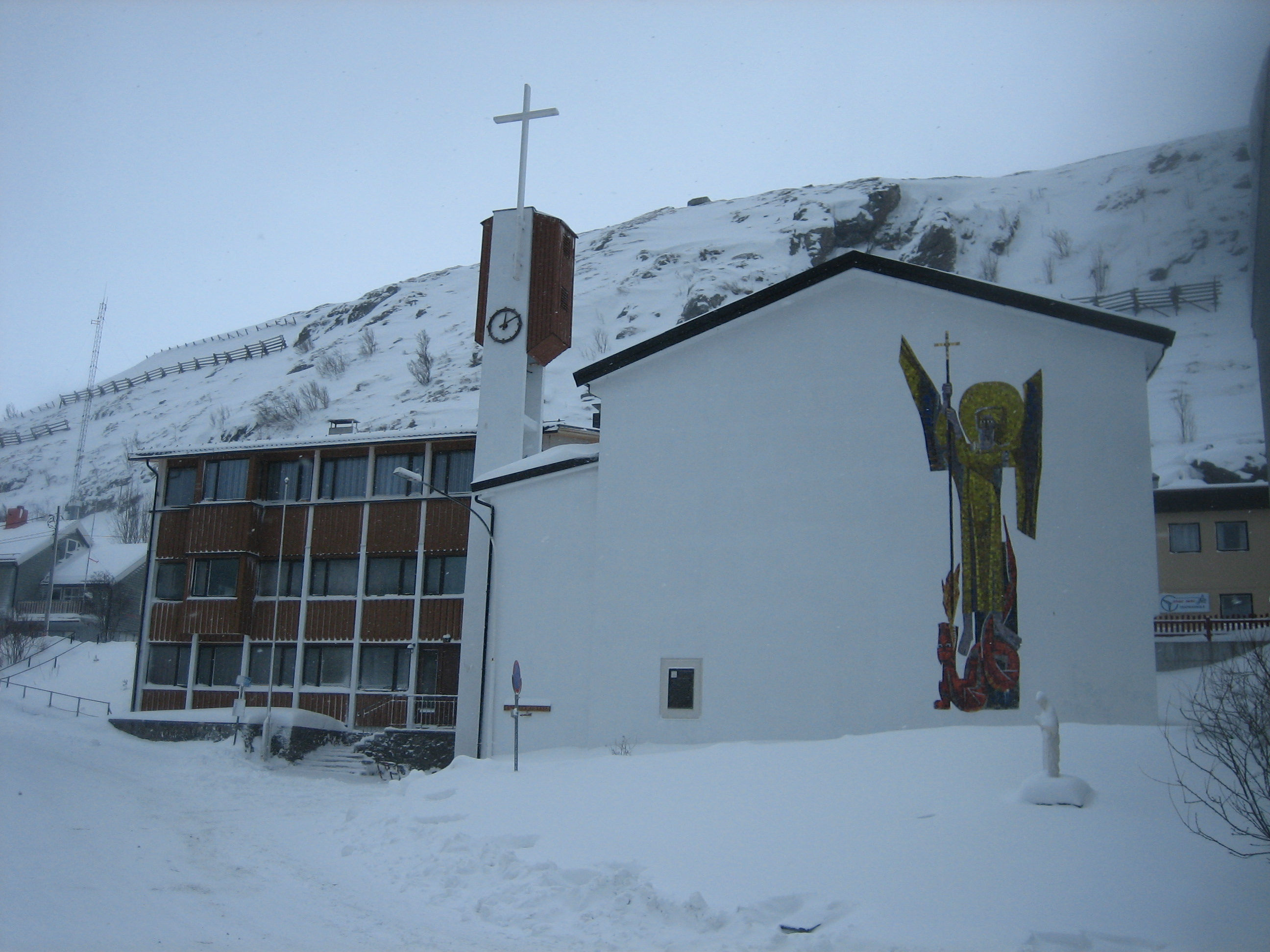 St. Michael's Church in Hammerfest, the world's northernmost Catholic church.